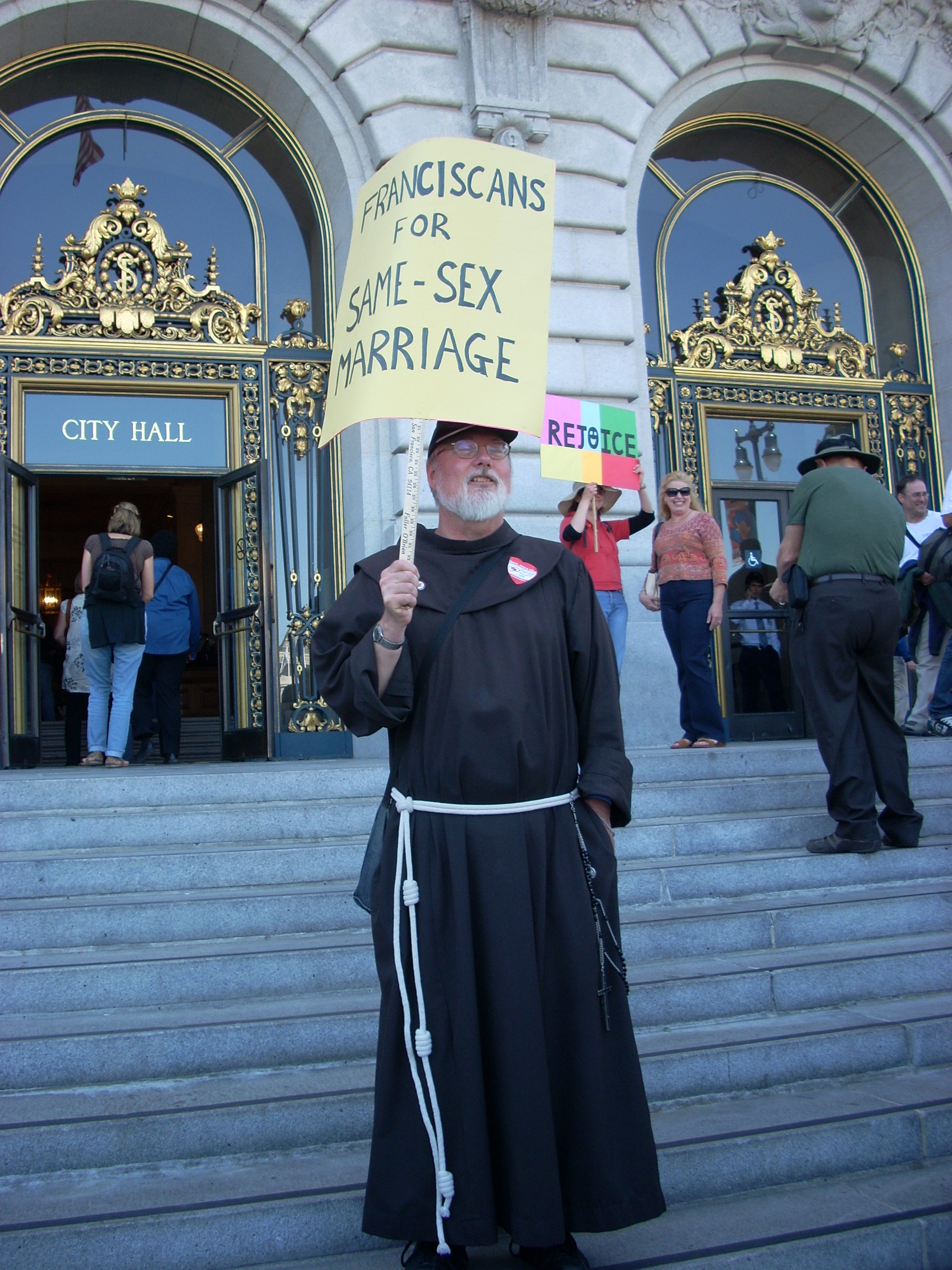 Brother Richard Jonathan, SSF, wearing traditional Franciscan garb stands on the steps of San Francisco city hall with a sign that reads "FRANCISCANS FOR SAME-SEX MARRIAGE". Two women behind him smile, one holding another sign that reads "REJ☻ICE". This was taken on June 17 2008, the first day same-sex couples were legally allowed to marry in California.